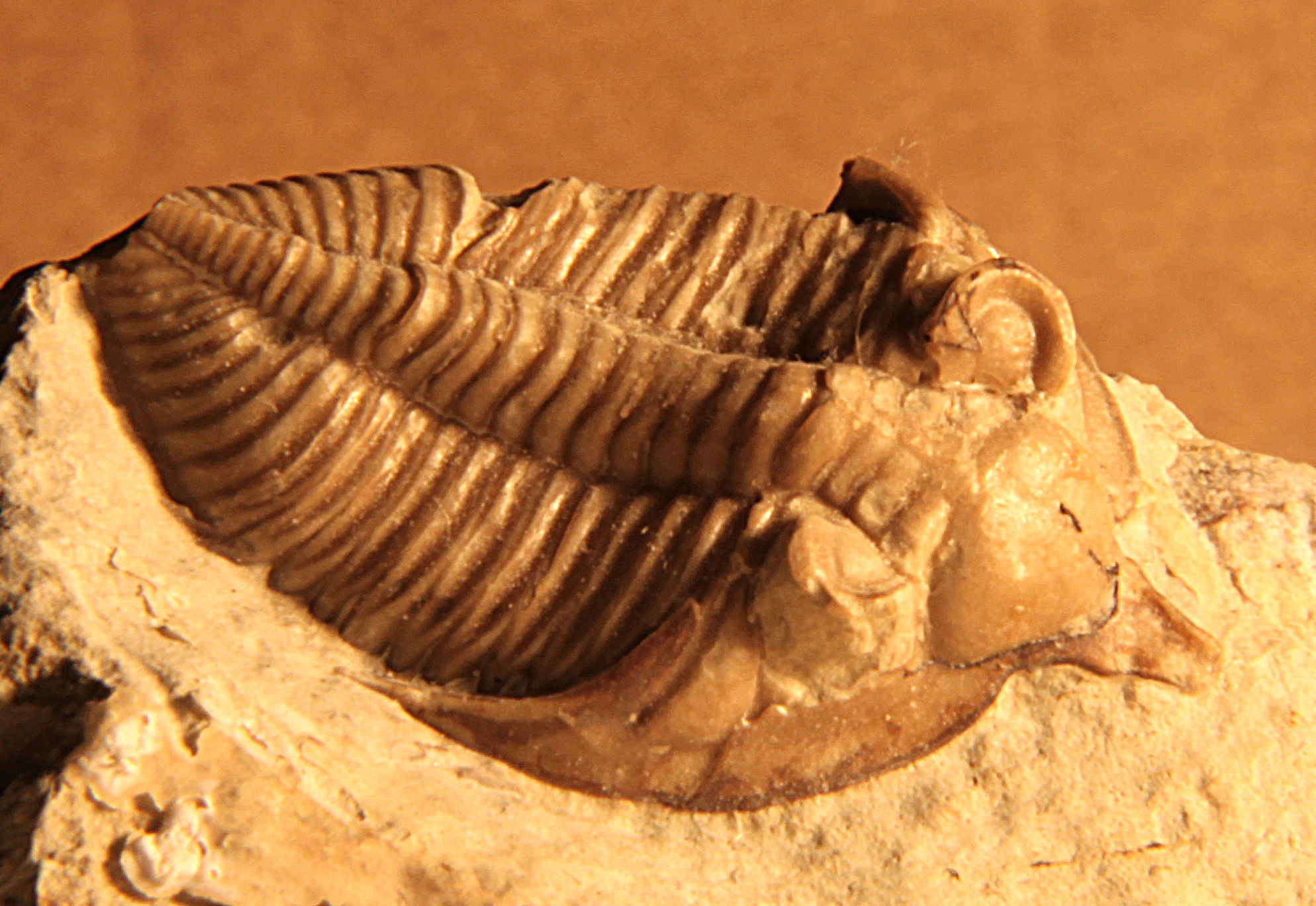 A specimen of the trilobite Huntoniatonia oklahomae, 33mm long, Order Phacopida, Family Dalmanitidae, from the Lower Devonian (Lochkovian), collected from the Haragan Formation, Oklahoma, USA